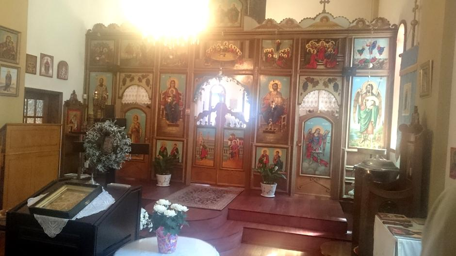 The iconostasis of the Saint Sava Serbian Orthodox Church in Toronto.